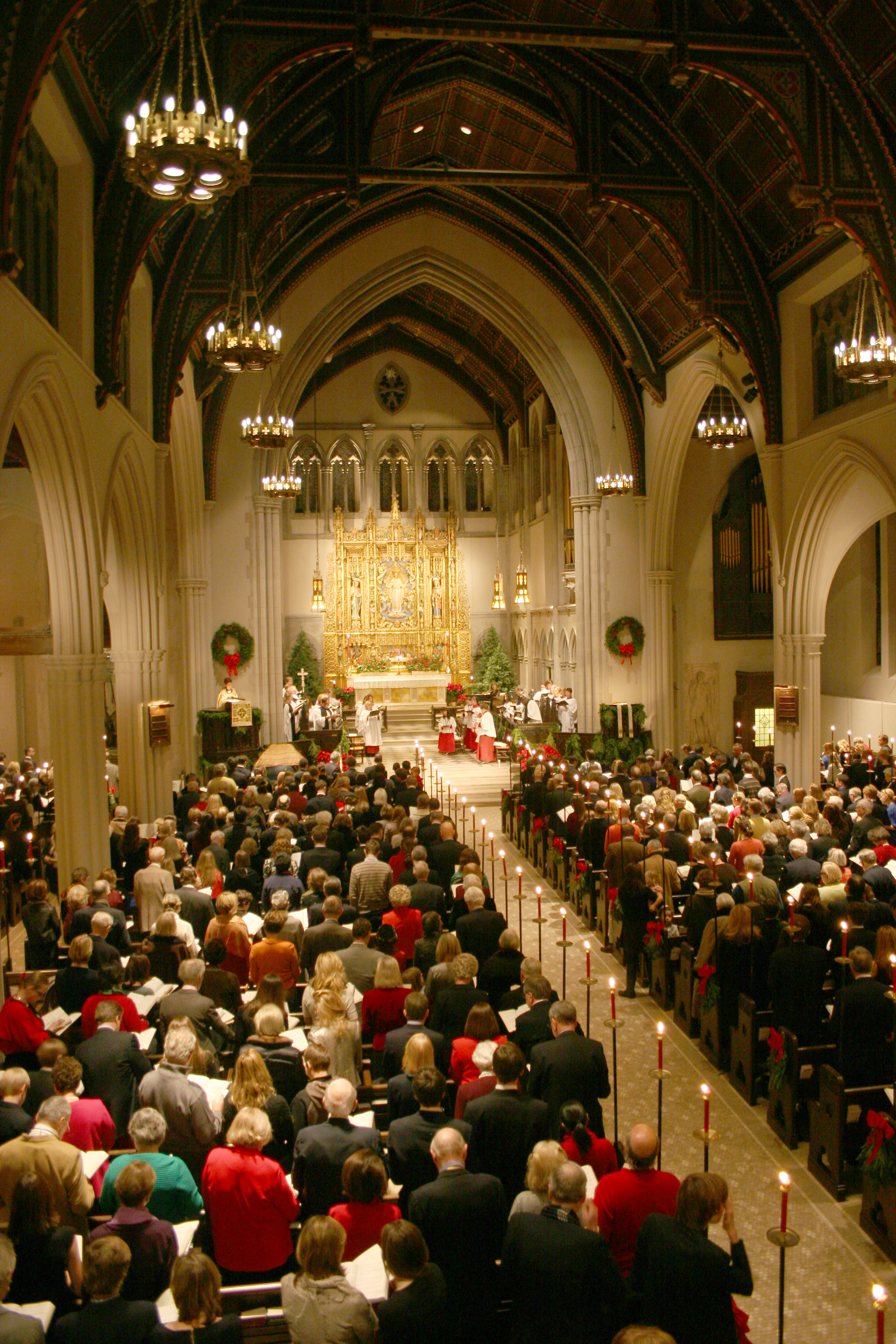 Christmas Eve 2004, St. James' Church (Episcopal), New York City.